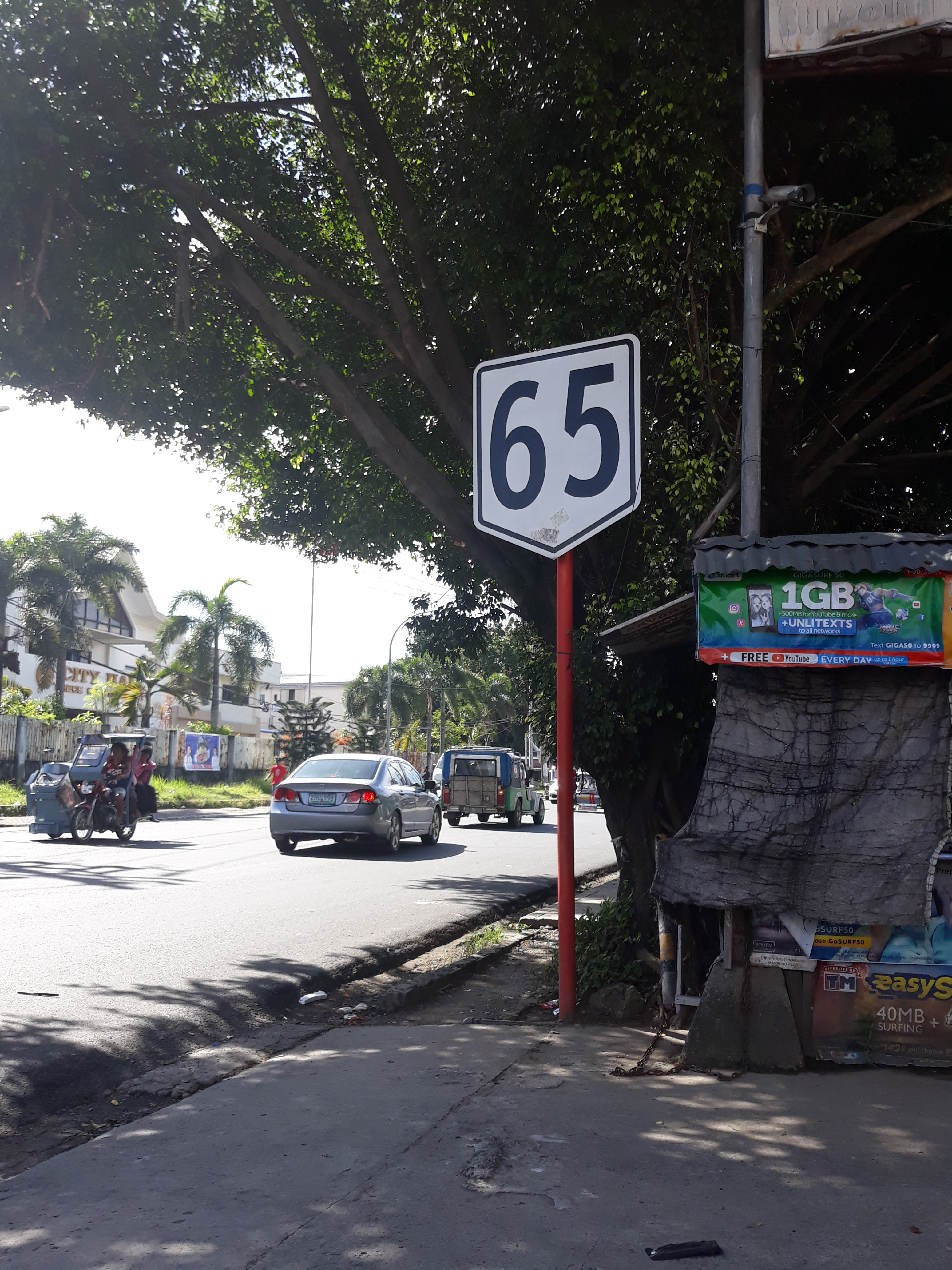 N65 route marker along Governor's Drive, Trece Martires, Cavite.